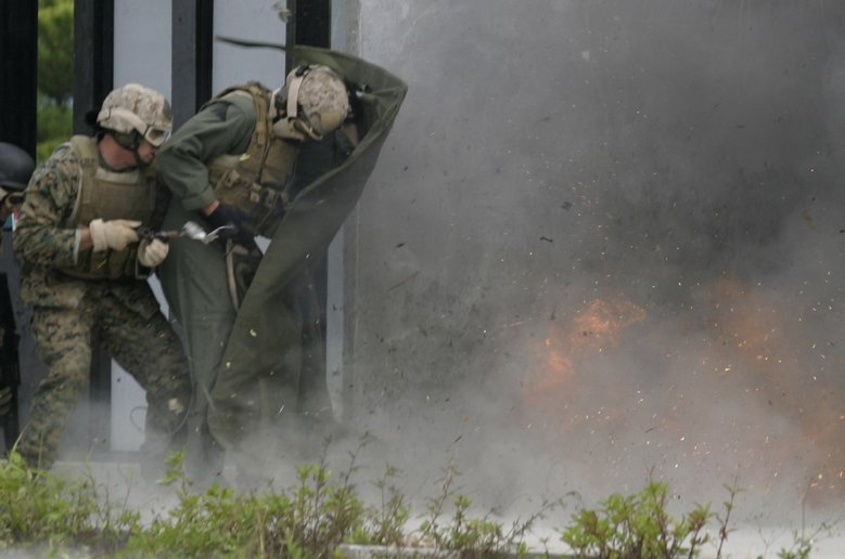 A breaching team shields themselves from a blast created by a slider charge during the Dynamic Entry Course Nov. 4 at Range 16. A slider charge is a group of explosive charges that are designed to take a door off its hinges. Twelve Okinawa-based Marines attended the 10-day course to learn how to gain entry into a barricaded building.